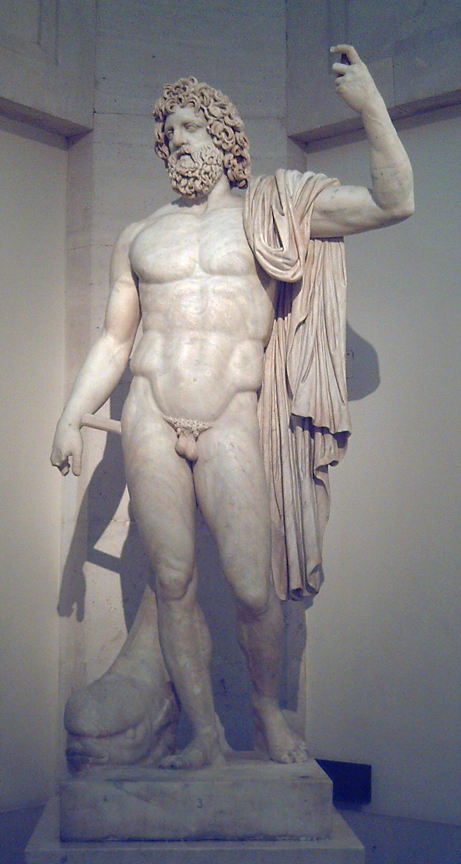 Colossal-type statue of Neptune. Probably sculpted in a workshop in Aphrodisias (Asia Minor), it was at Palaemon's sanctuary in Isthmia (near Corinth), where it was described by Pausanias (II, 2, 1) in the 2nd century CE. It is an important sample of Roman Empire's classicism.